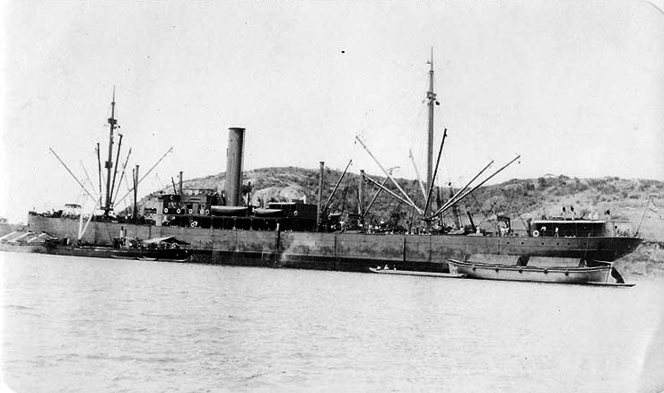 S.S. Kentuckian (American Freighter, 1910) In port, circa 1917-1918. This ship served as USS Kentuckian (ID # 1544) in 1919. Courtesy of Don S. Montgomery, USN (Retired). U.S. Naval Historical Center Photograph.